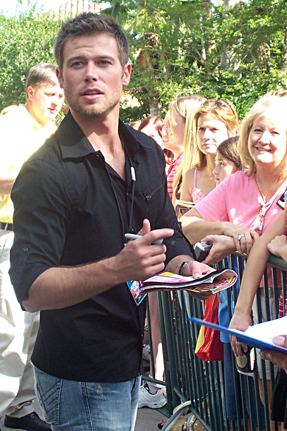 Photo of Jacob Young at Super Soap Weekend in Orlando, Fl.